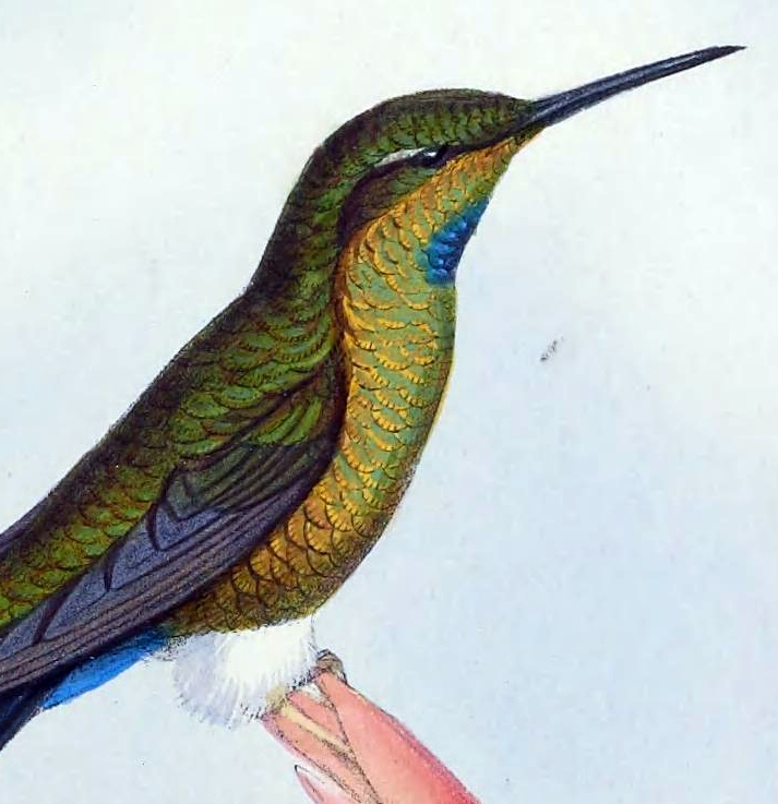 Detail of hummingbird Eriocnemis godini